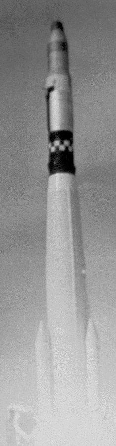 Launch of the Thor SLV-2A Agena D rocket with Corona 105 (KH-4A 1029) satellite.